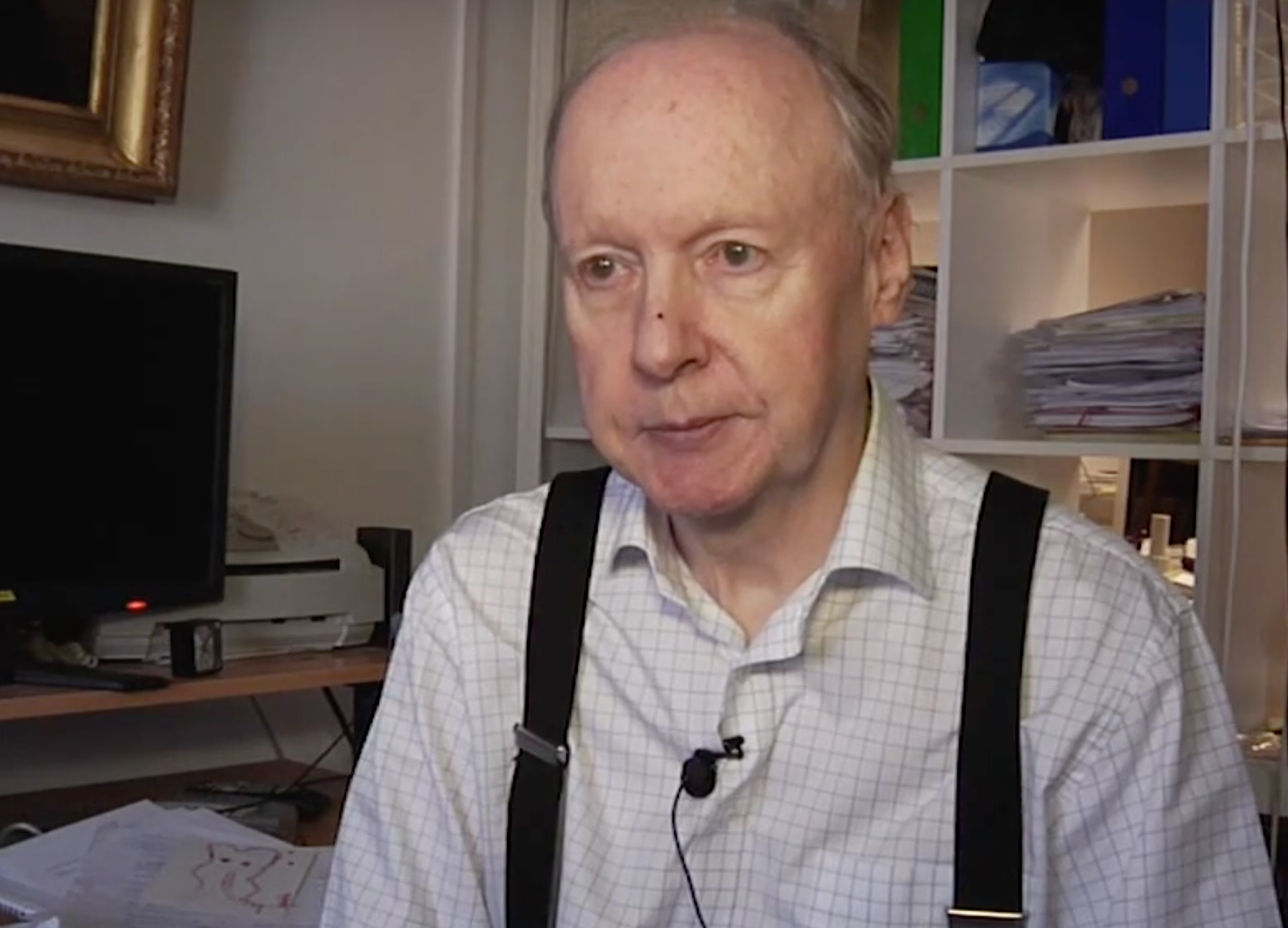 Jacob Palme, Swedish author and professor in computer science.